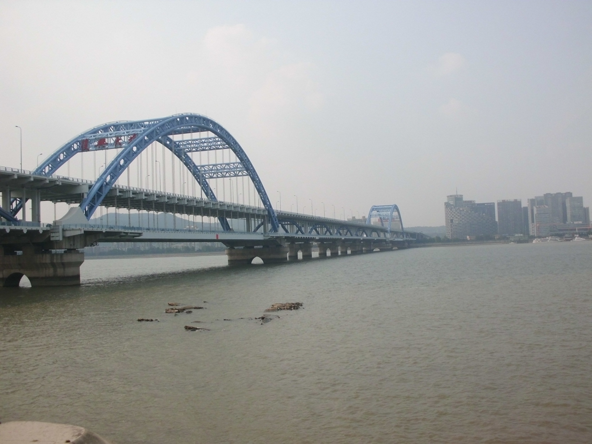 Fourth Qiantang River Bridge